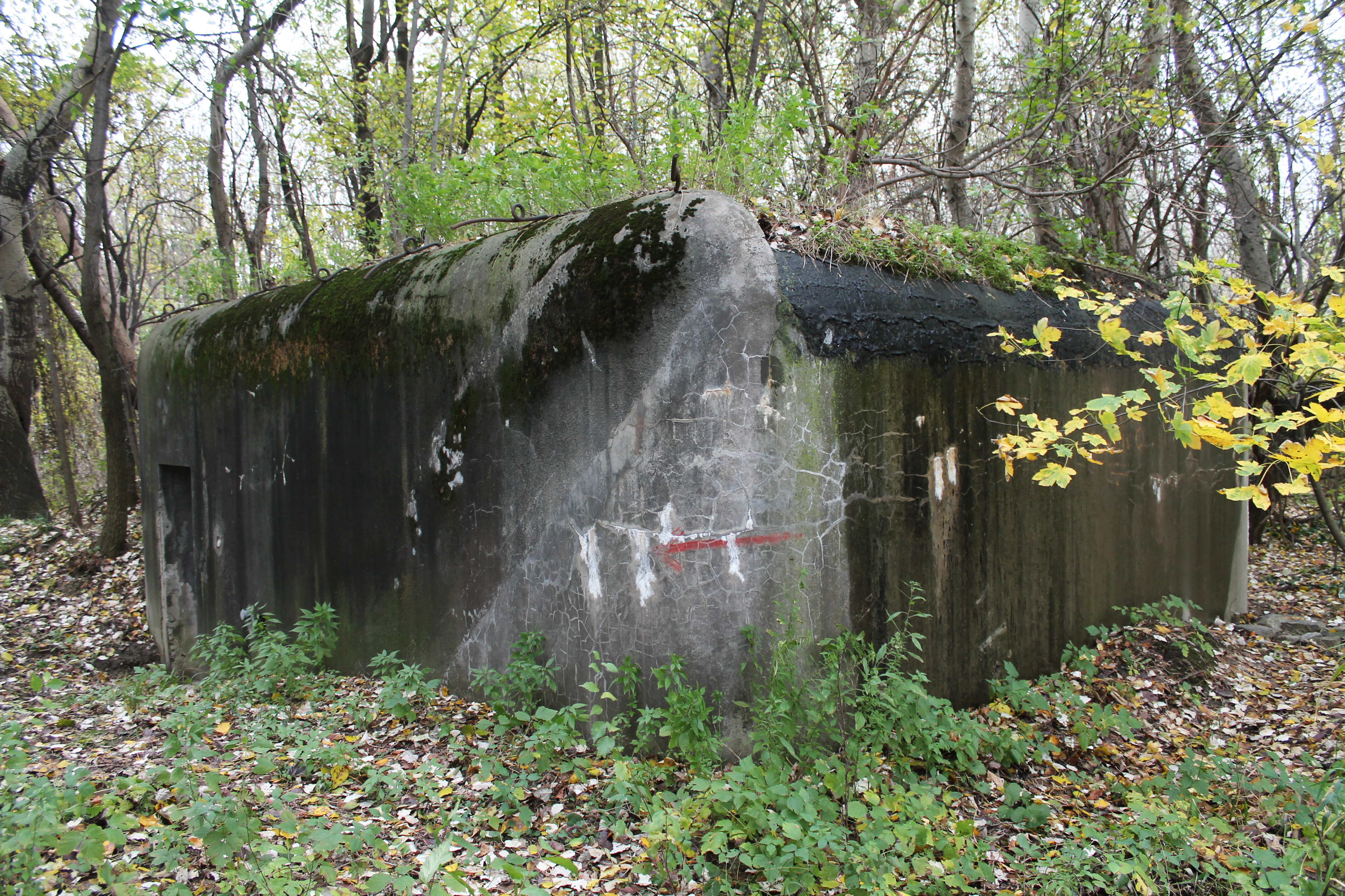 B-SV 4 command casemate, Bratislava, Slovakia